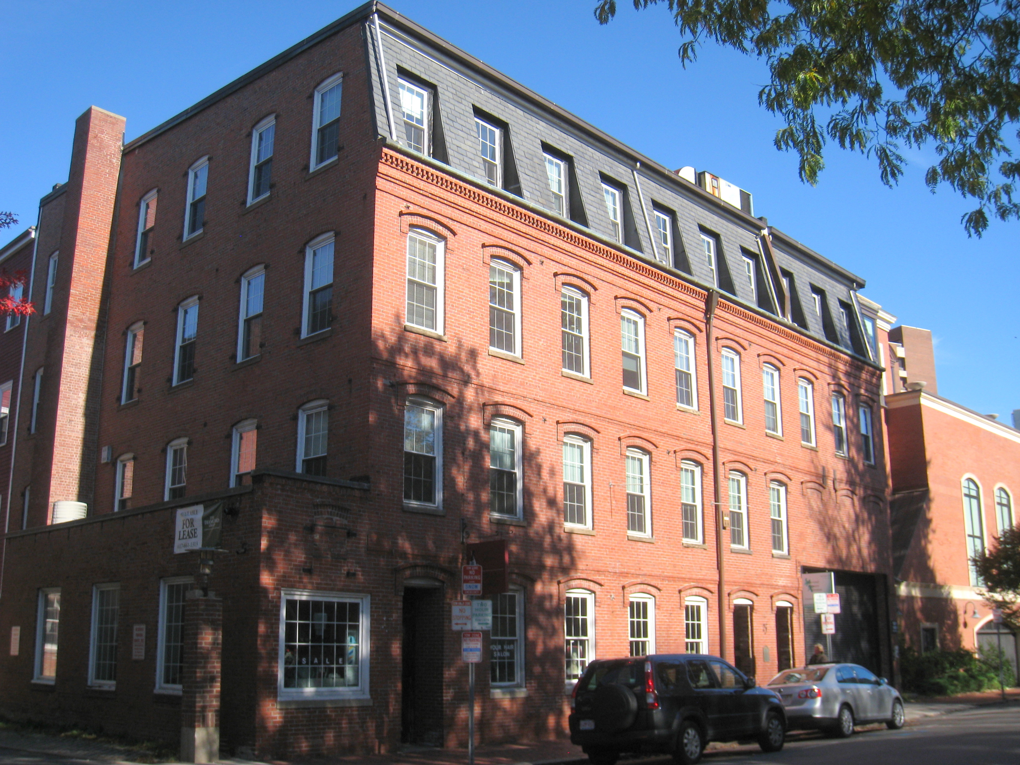 Reversible Collar Company Building, Cambridge, Massachusetts, USA. Listed on the National Register of Historic Places.